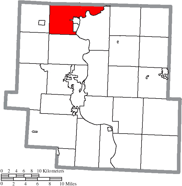 Map of the municipal and township boundaries of Muskingum County, Ohio, United States, as of the 2000 census, with the location of Cass Township highlighted. Township borders are shown only in unincorporated areas in order to differentiate incorporated and unincorporated areas more clearly.